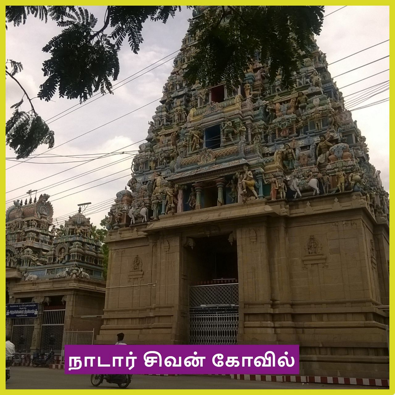 Front image of Aruppukottai Nadar Sivan Temple